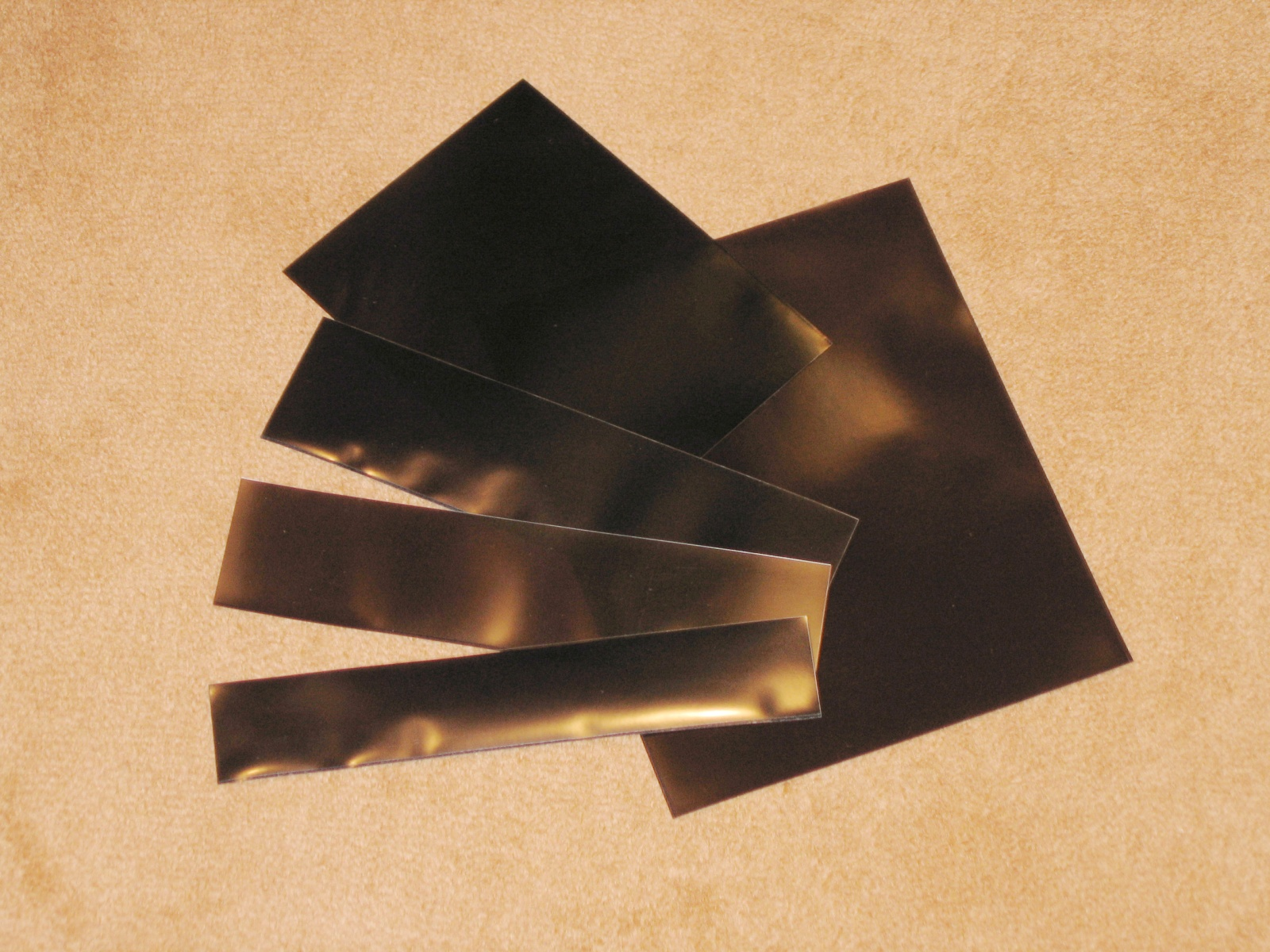 Postage stamp mount of various sizes.